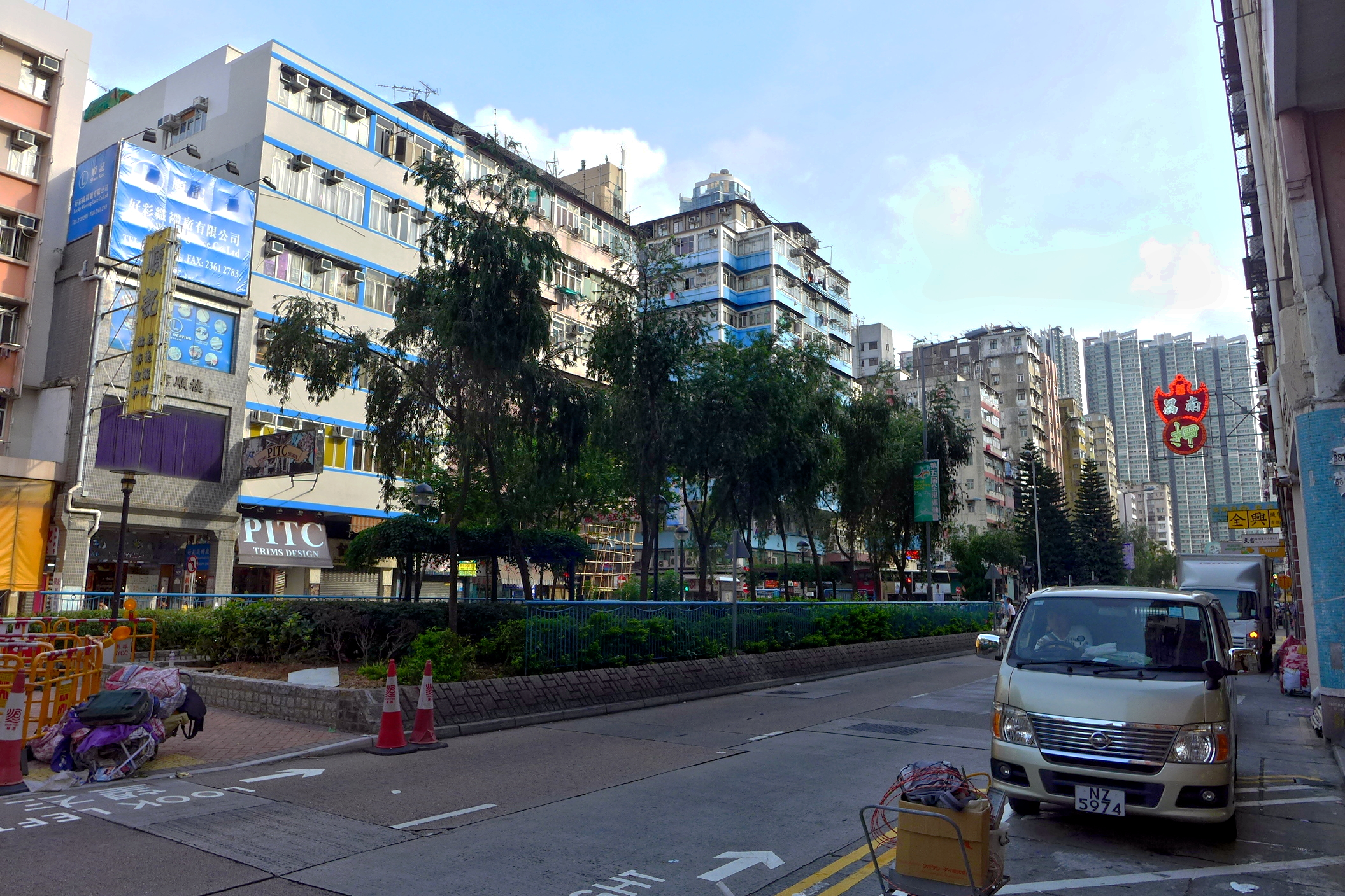 Nam Cheong Street Sham Shui Po Section